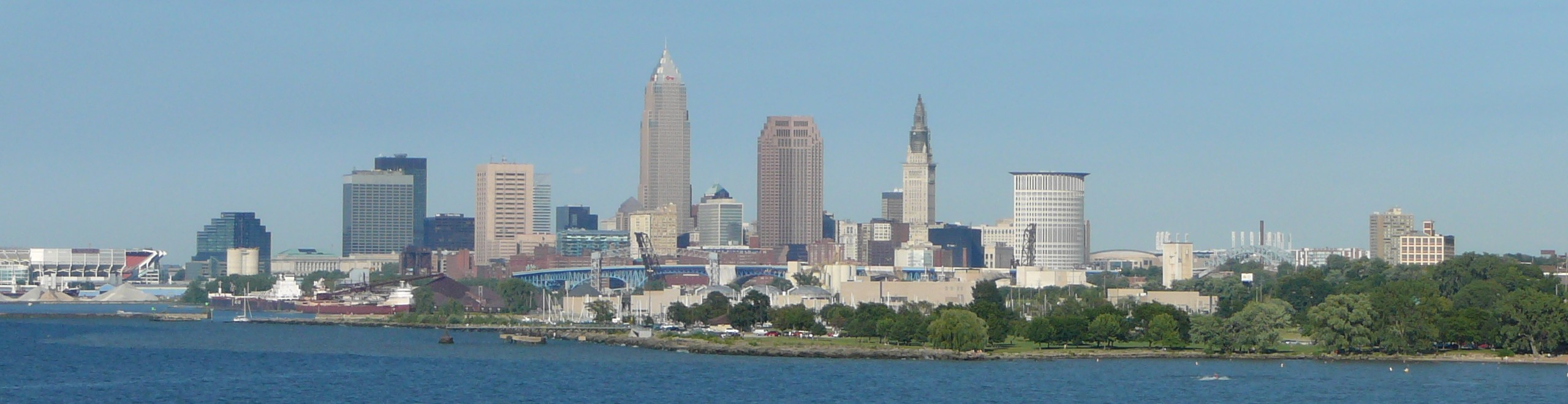 View of Cleveland, Ohio skyline from Cliff Drive, Cleveland. This photograph was taken by Avogadro on 15 August 2006, and is released by me, the author, under a Creative Commons license. --Avogadro94 21:25, 16 August 2006 (UTC)